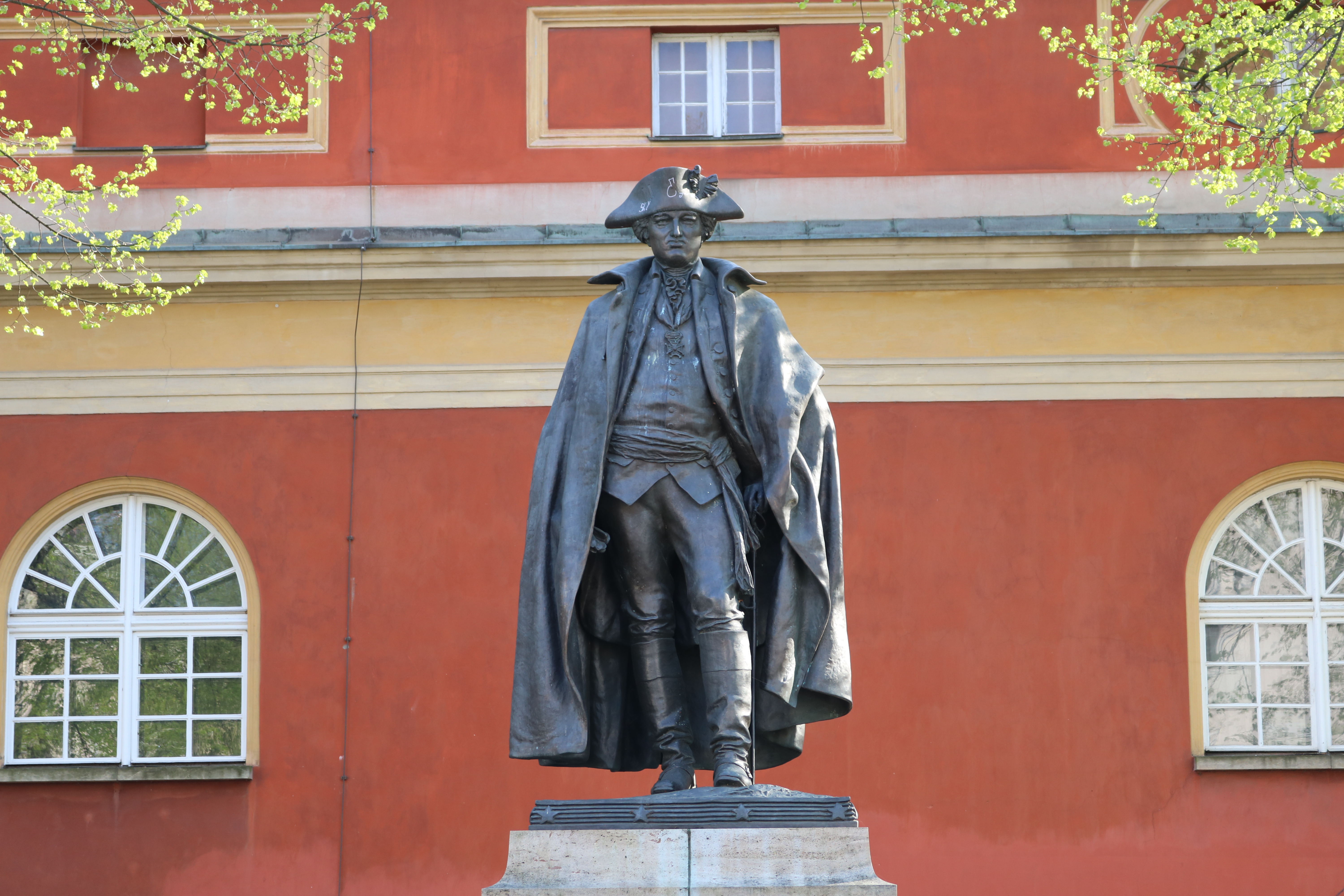 Monument to the General Friedrich Wilhelm von Steuben in Potsdam. April 2018.